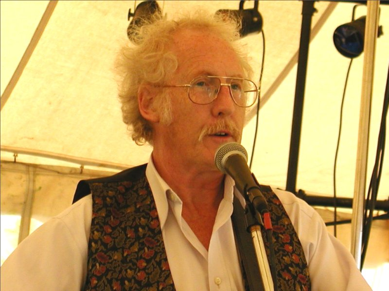 Fred Wedlock appearing at Allerford Folk Festival, Somerset